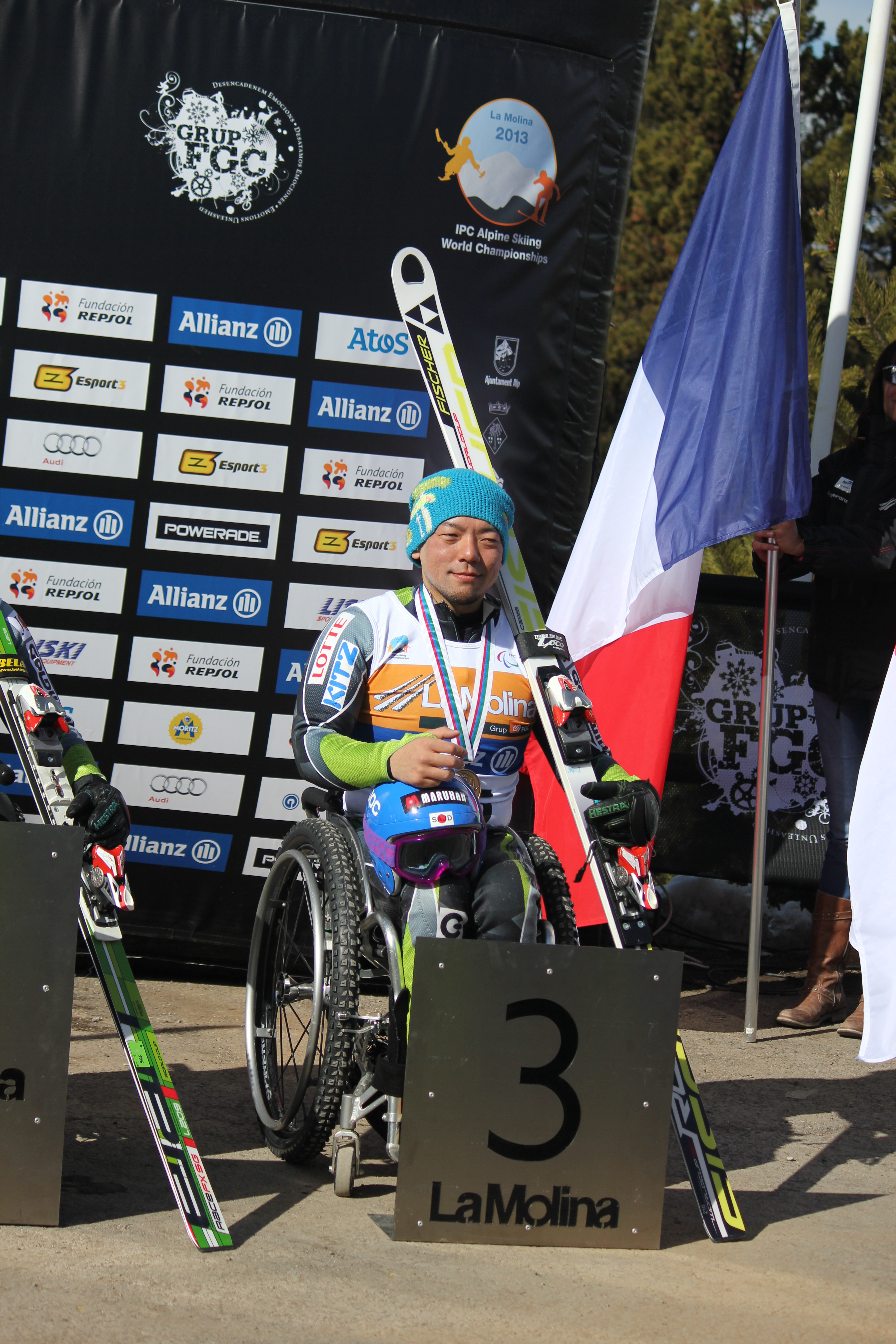 Akira Kano. 2013 IPC Alpine World Championships award ceremonies. Super-G. La Molina, Spain.